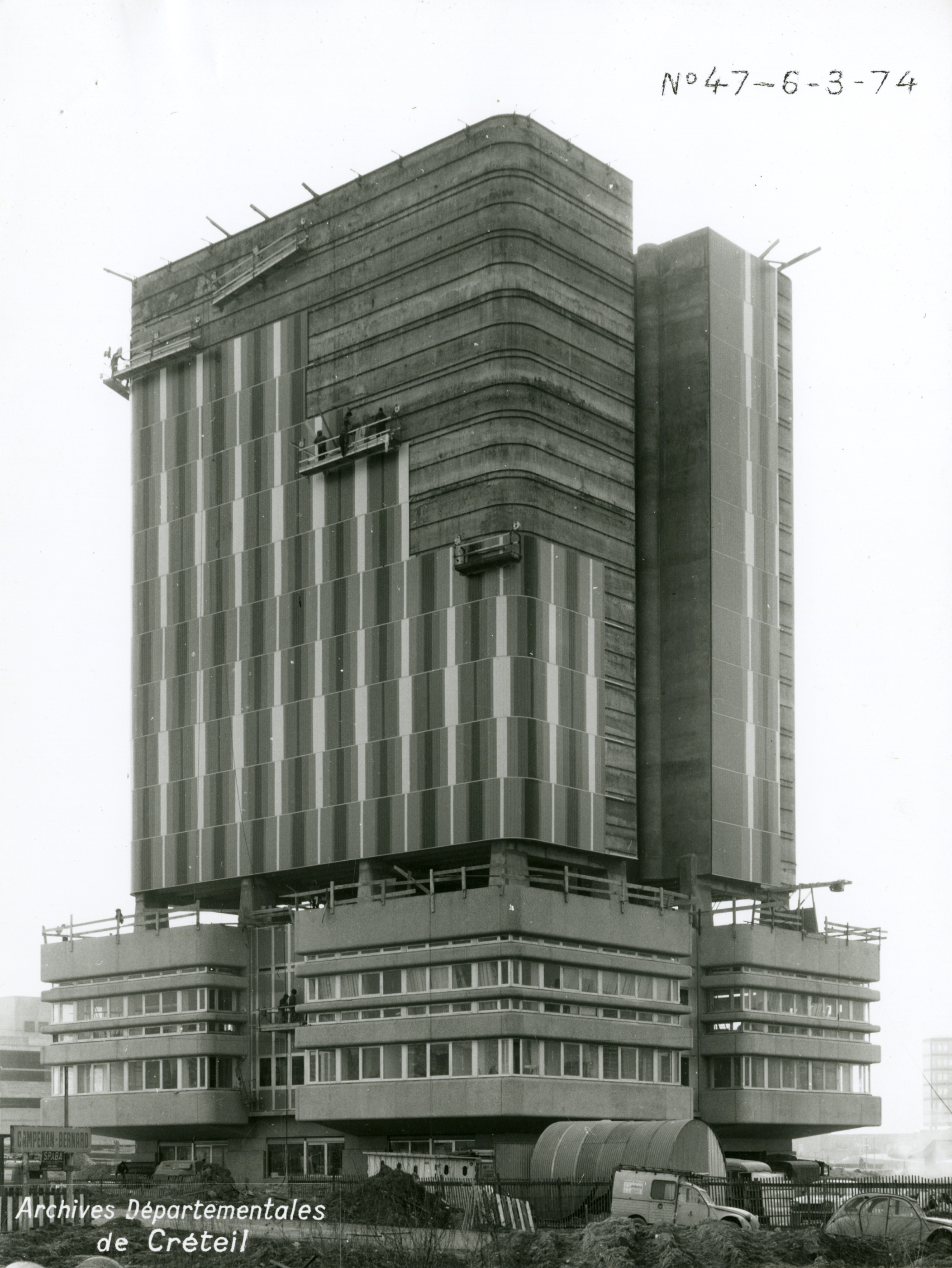 Archives départementales en cours de construction. Mars 1974. © H. Fernier. AD94, 45 W 53.